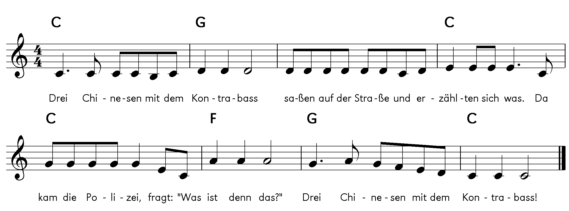 "Three Chinese with the double bass" (German children's song). Lyrics (translated): Three Chinese with the double bass sat in the street and told me something. Then the police came and asked, "What is that?" Three Chinese with the double bass! File by the uploader